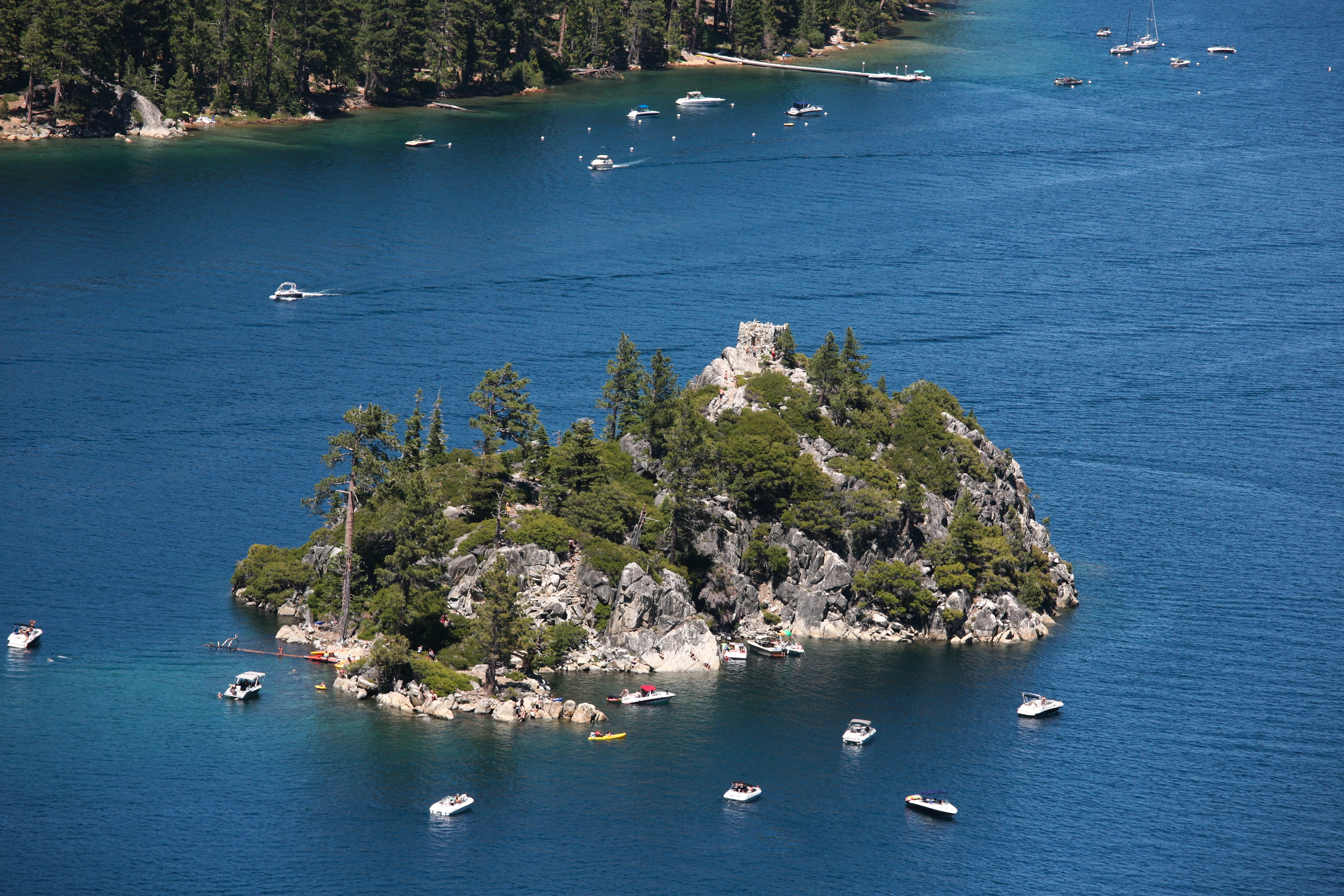 Emerald Bay with Fannette Island, Lake Tahoe, California, USA